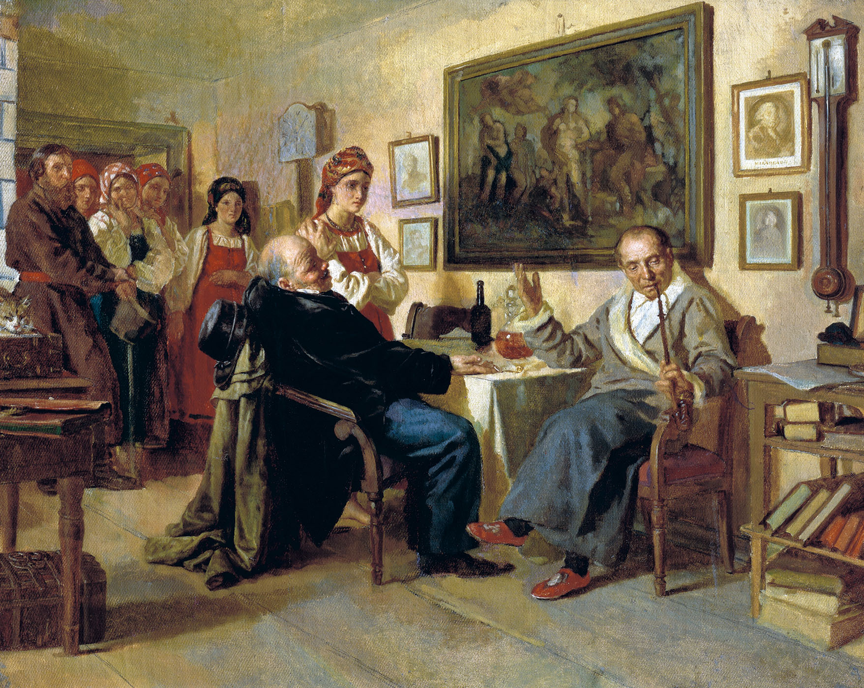 The Market